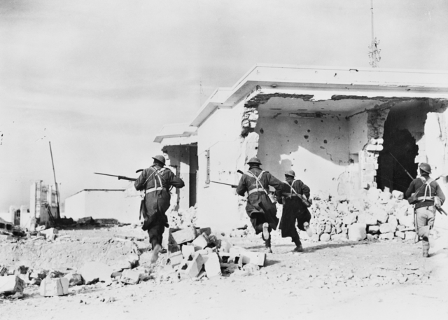 Troops from the Australian 2/2nd Infantry Battalion rush through the streets of Bardia